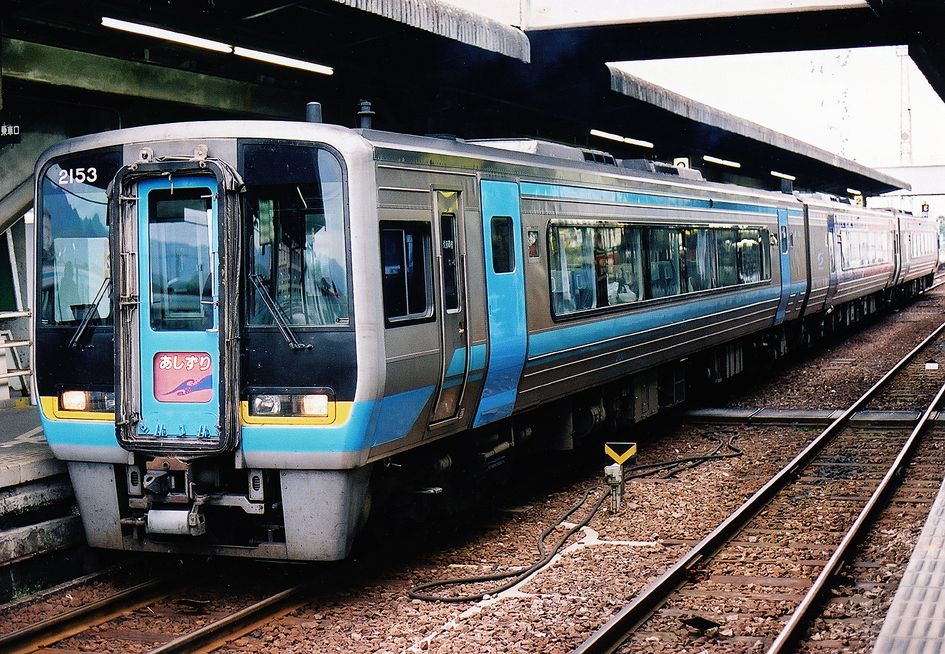 JR Shikoku 2000 series DMU for the Limited Express Ashizuri at Kochi Station